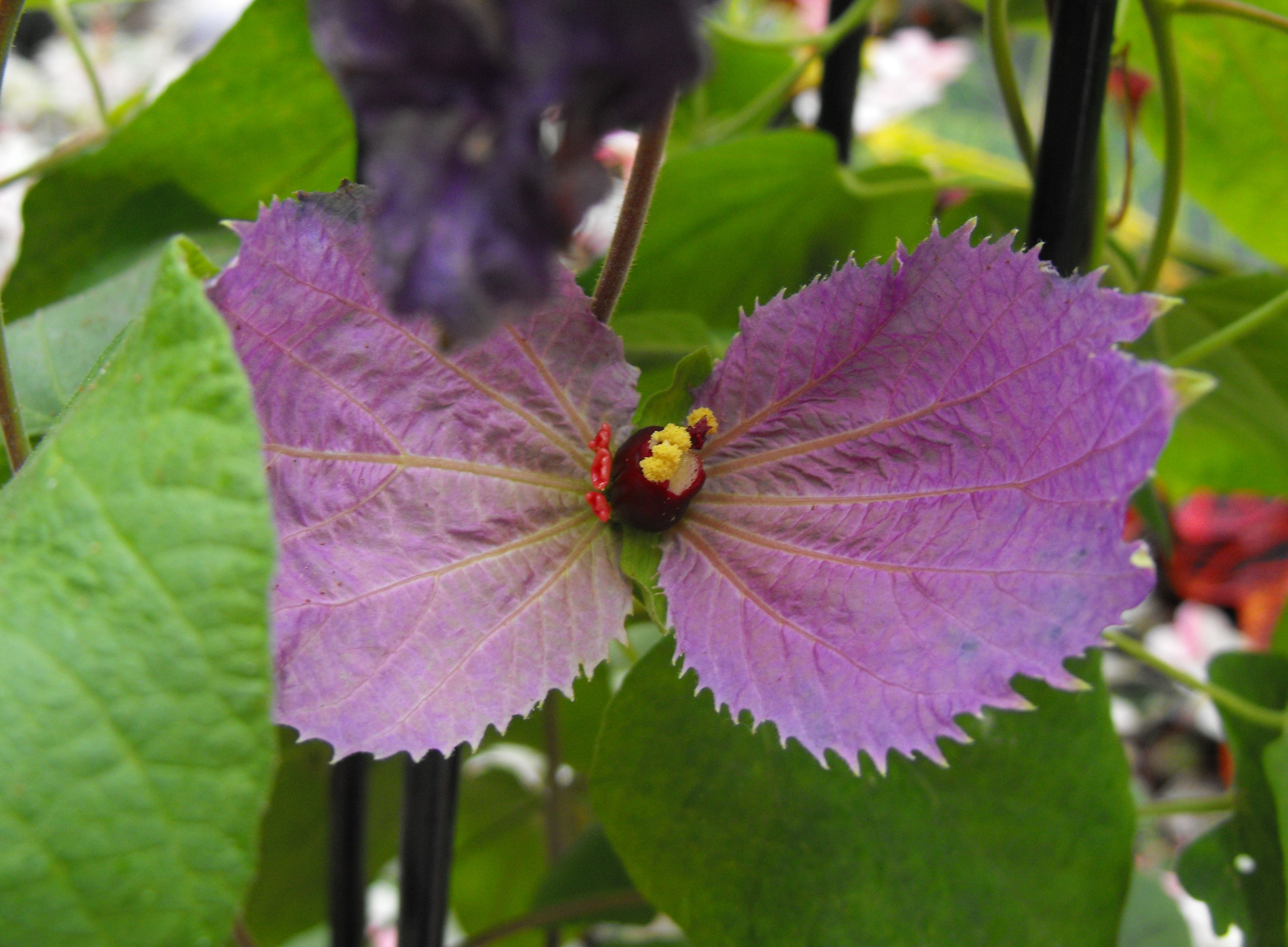 Dalechampia aristolochiifolia in the Botanical Building at Balboa Park, San Diego, California, USA. Identified by sign.